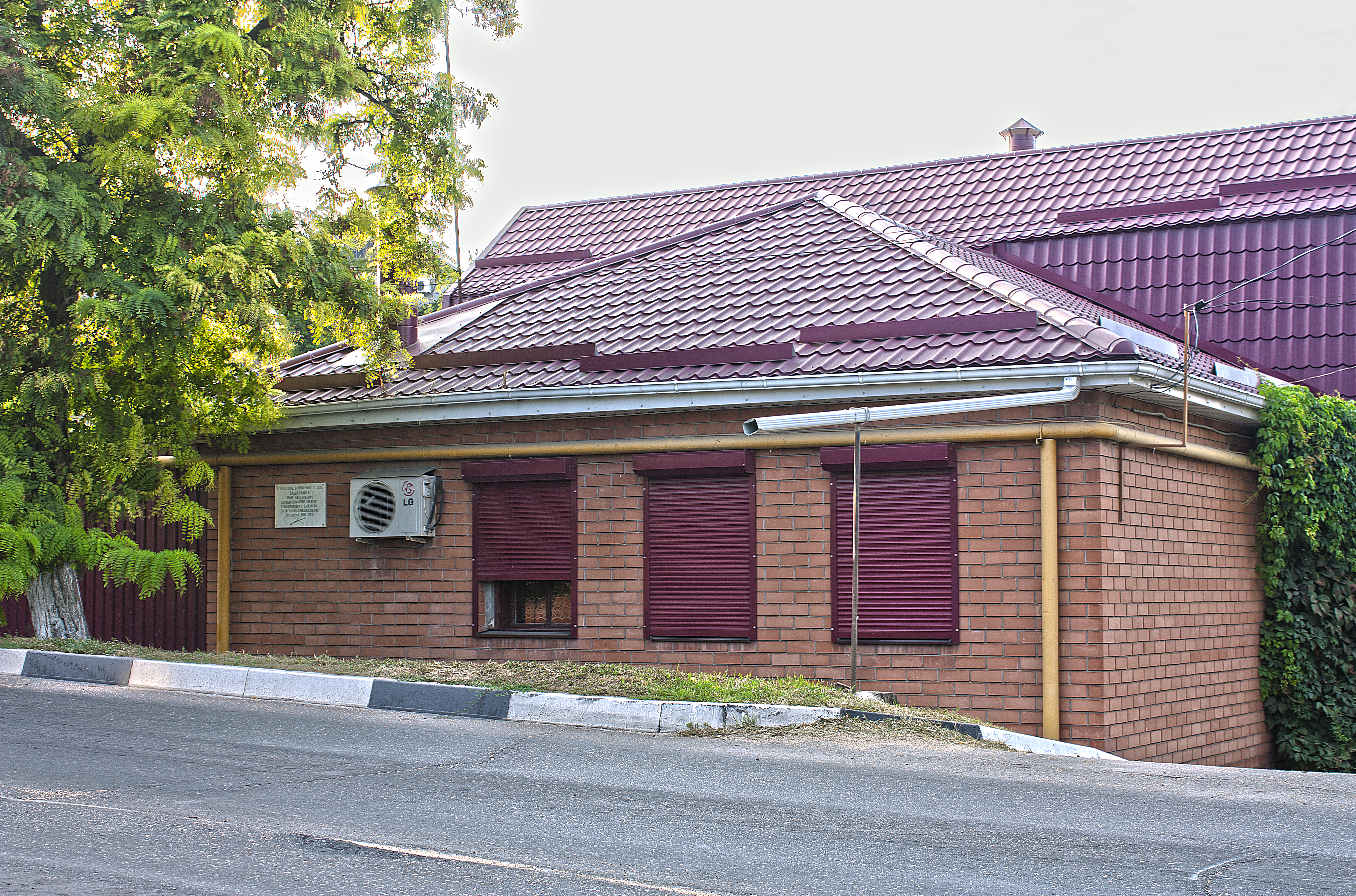 The house in which lived the commander of the first battalion of the revolutionary Yeisk IE Balabanov: street Bohdan Khmelnytsky, 38, Yeisk, Yeisk district, Krasnodar region